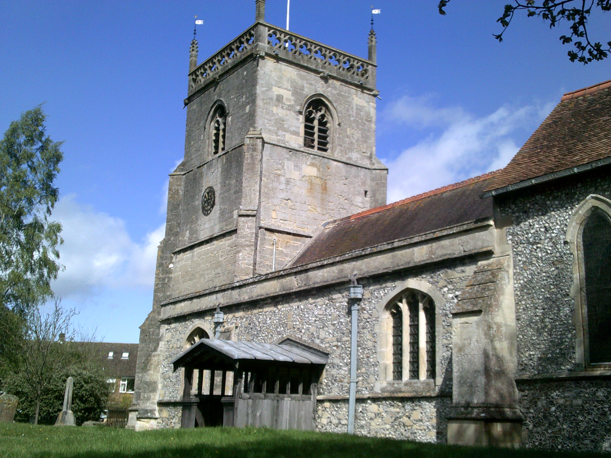 St Michael and All Angels parish church, Blewbury, Oxfordshire (formerly Berkshire): nave and west tower, seen from the southeast